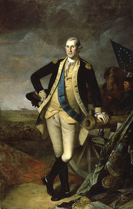 Among his numerous accomplishments—artist, inventor, naturalist, museum proprietor, co-founder of the Pennsylvania Academy, and patriarch of an artistic dynasty —Peale was also a soldier in the War of Independence. In spite of his abhorrence of violence, Peale’s desire for a free America compelled him to enlist. He rose to the rank of Captain, striving to ease his troop’s hardships during the hard winter at Valley Forge. Intelligent and energetic, Peale even managed to further his nascent painting career during the war, executing miniature portraits, including one of General George Washington; it would be the first of at least four more portrait sittings with the future first president. This work is the third of Peale’s portraits of Washington from life, commissioned by the Supreme Executive Council of Philadelphia to commemorate victory in the battles of Princeton and Trenton, in which the British, and their Hessian mercenaries, were successfully routed from Pennsylvania, New Jersey, and New England. Here, midway through the Revolution, Washington is portrayed as Commander-in-Chief, signified by the blue sash he wears, prisoners of war and Princeton College visible in the background. The commission was a tremendous coup for Peale, and replicas were in demand even before the portrait was finished; this painting is known to be the original work. "George Washington at Princeton" originally hung in the State House (now Independence Hall), but eventually came to hang in Peale’s Museum, and later the Academy. Man holding horse matches descriptions of William Lee, Washington's valet